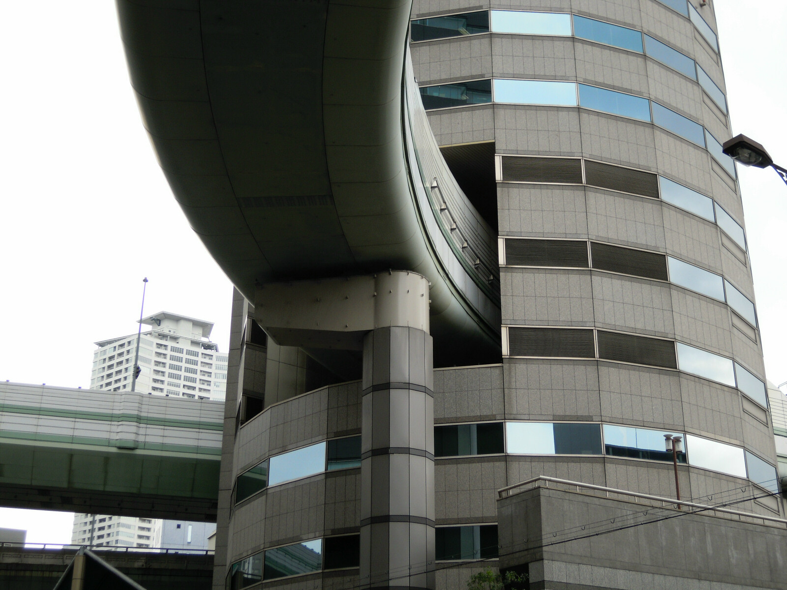 TKP Gate Tower Building